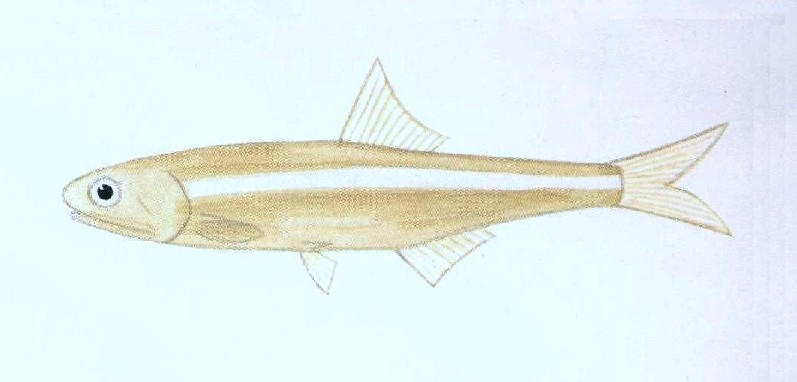 Indian anchovy (Stolephorus indicus). Tempera on paper.